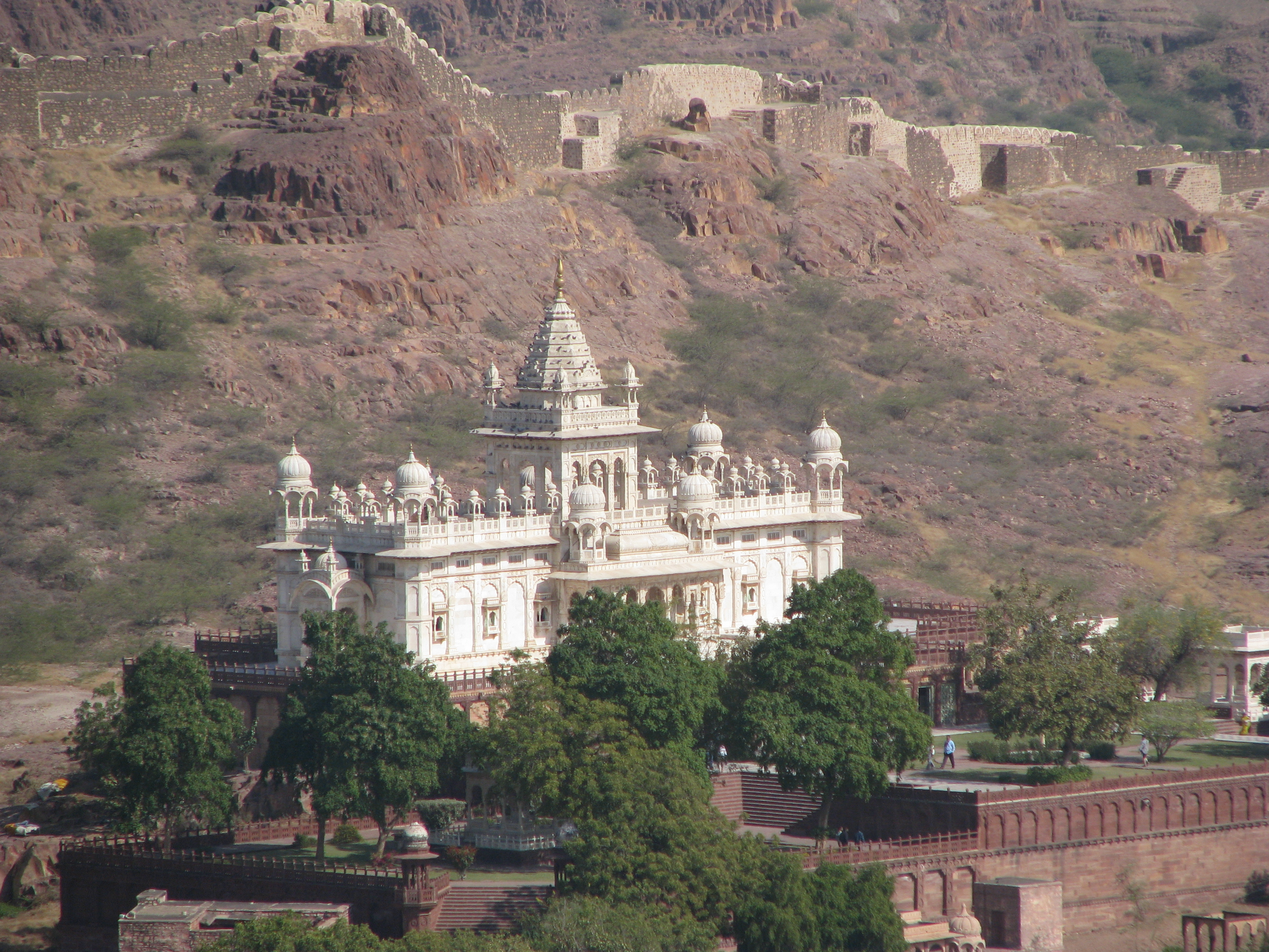 Jaswant Thada, Johphur, Rajasthan India taken from Mehrangarh Fort